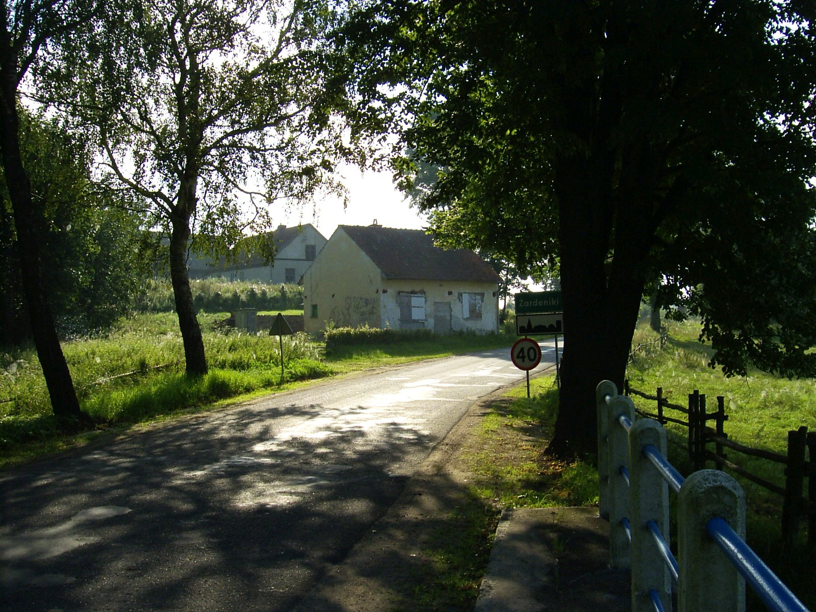 entrance to village shot at sunrise